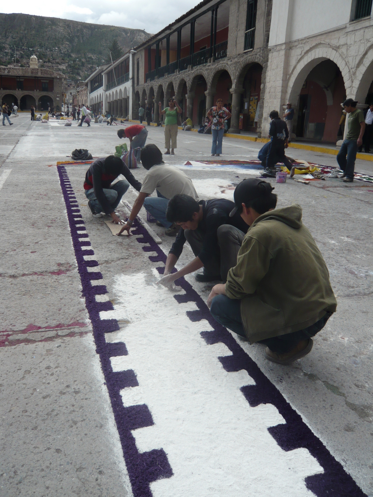 Photos of Ayacucho taken by E. Zambrano